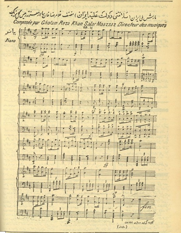 Note of old national anthem of Persia (Iran) published in "Asre Jadid" newspaper in September 19th 1915